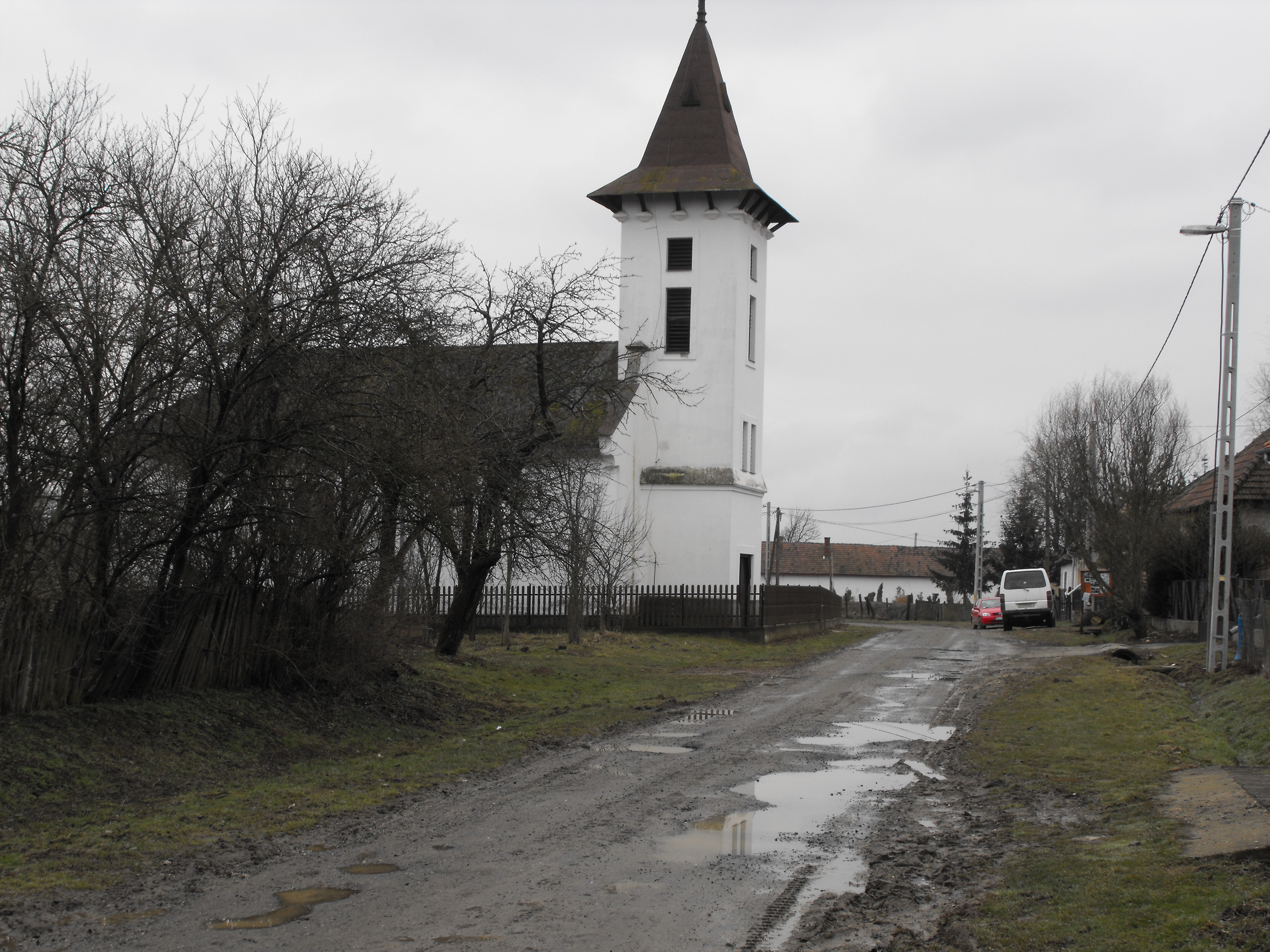 Protestant Church in Pamleny, Cserehat, Hungary